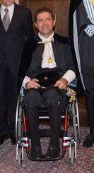 Former Captain Regent Mirko Tomassoni, who was in office from 2007 - 2008.